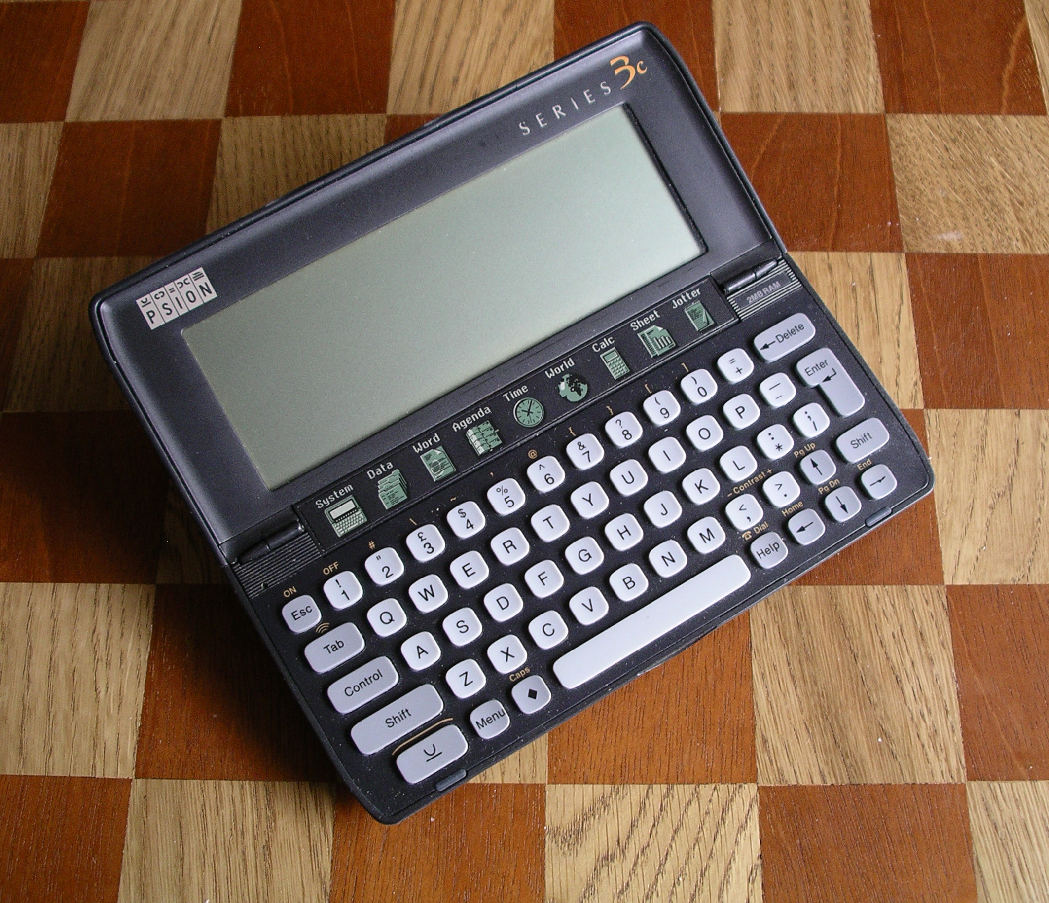 Photo taken by me of a Psion 3c on 17 October 2006 with the lid open. The background has 5 cm squares.